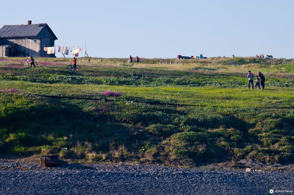 Varnek settlement